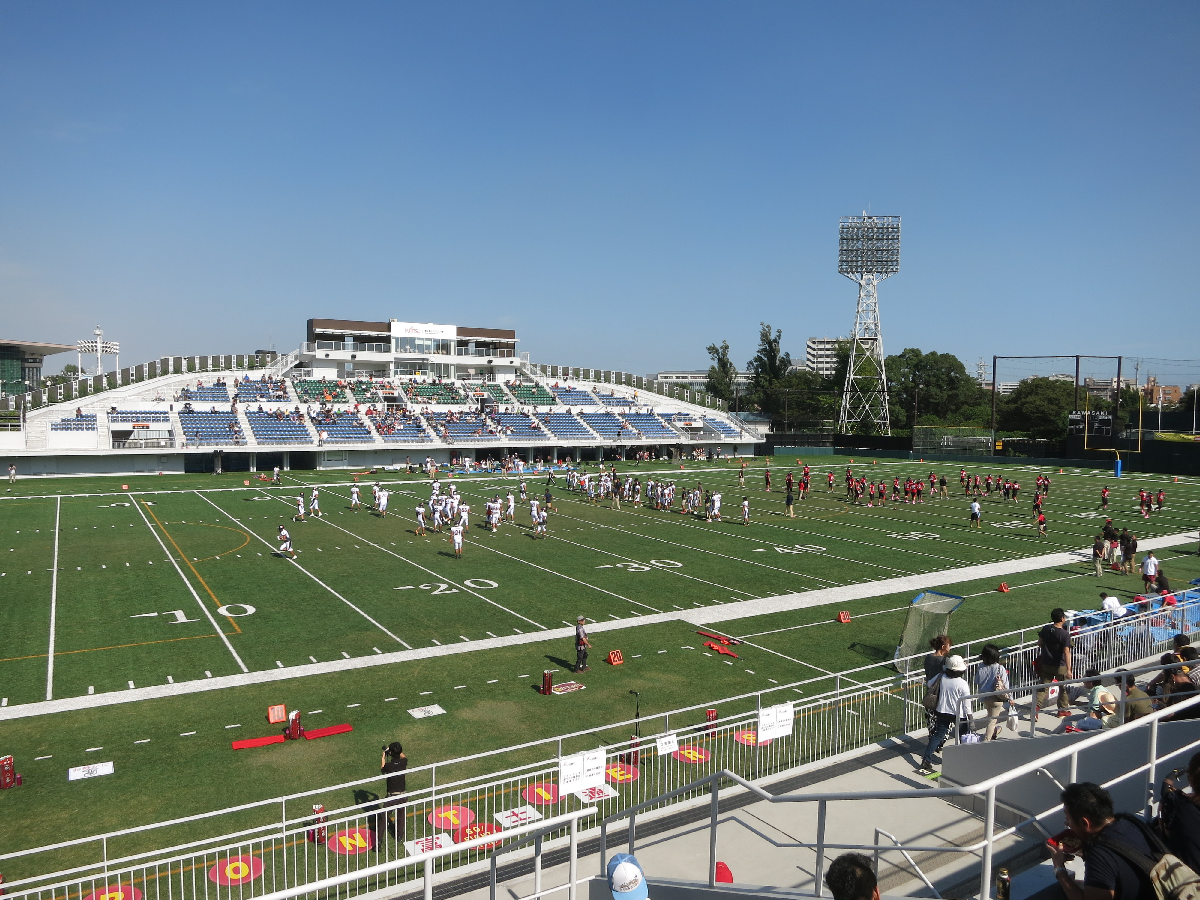 kawasaki_fujimi Stadium